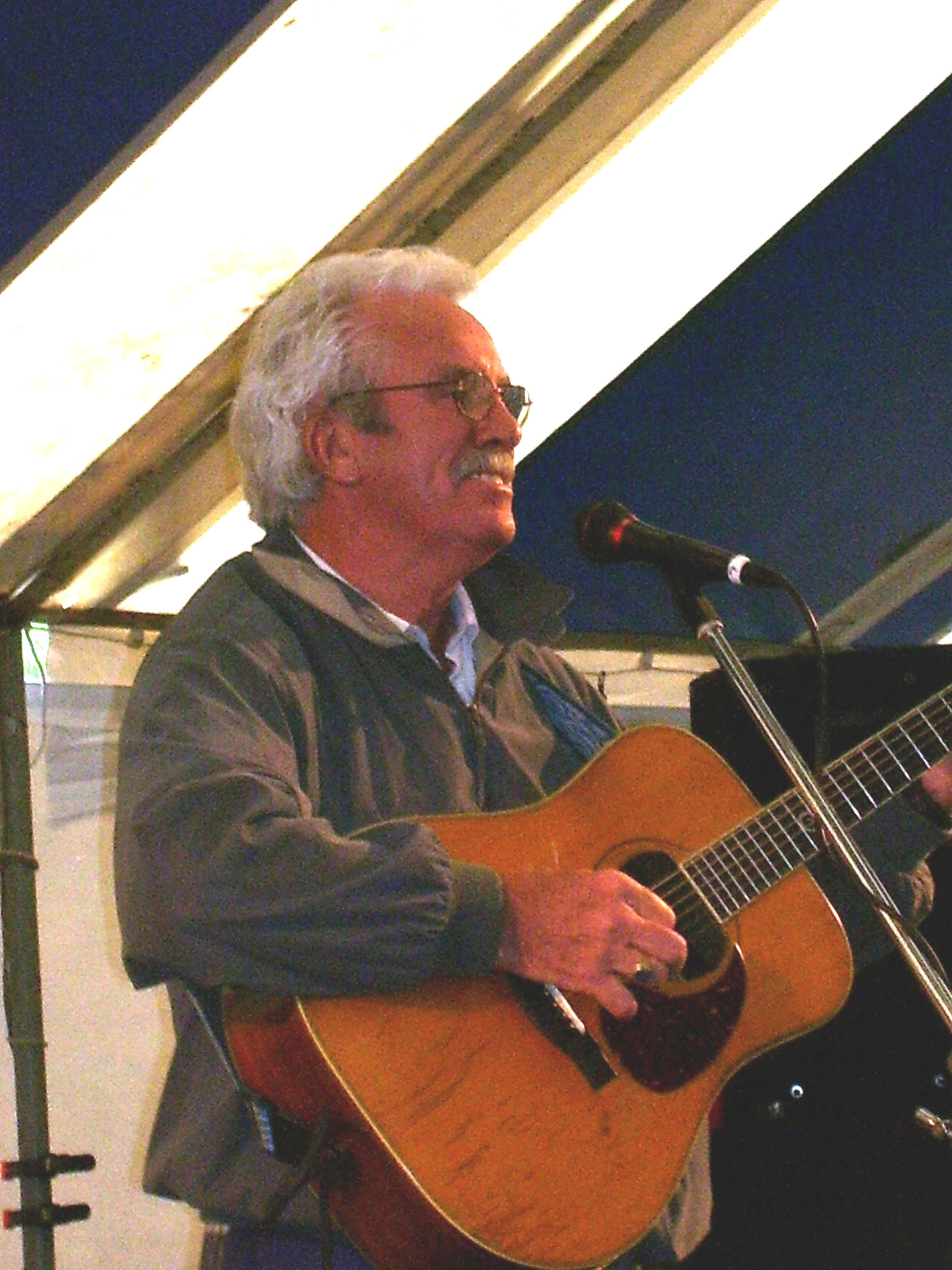 Alex Beaton at the 2006 Kentucky Scottish Weekend.